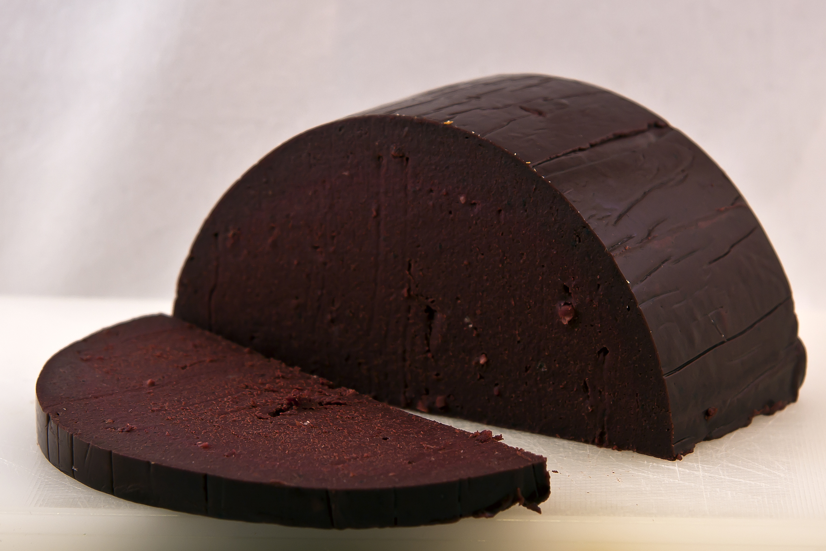 Raw Swedish black pudding, blodpudding.